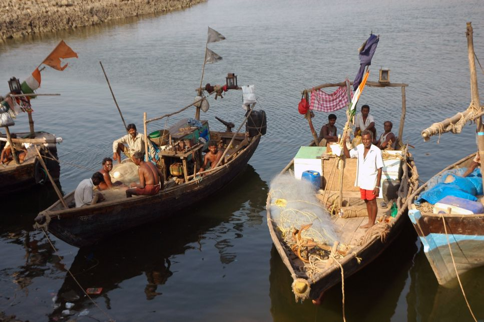 Marathi fishermen in their boats.